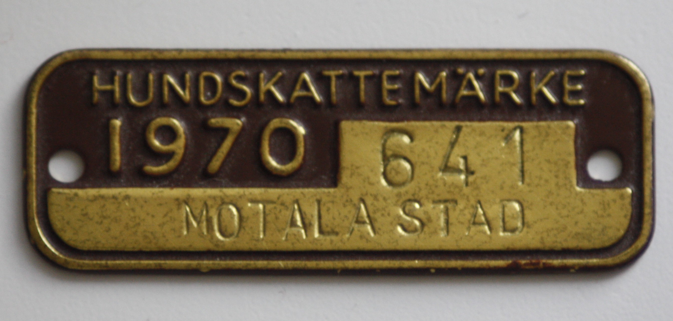 Dog licence badge from Sweden